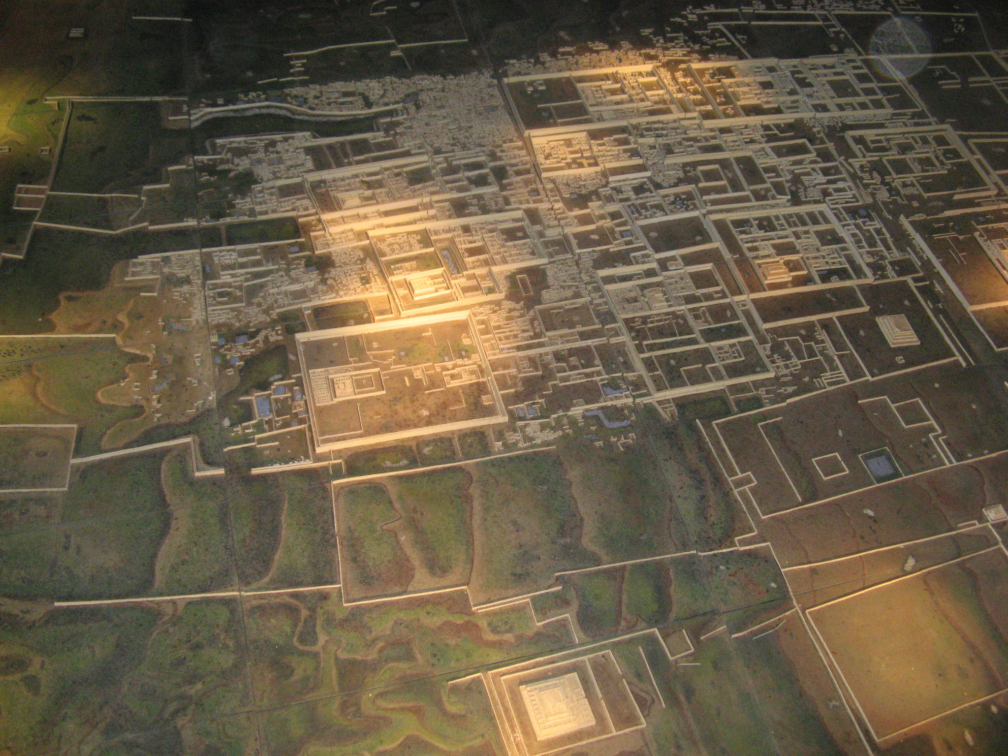 Model of the old Chan Chan city in Trujillo, Peru.